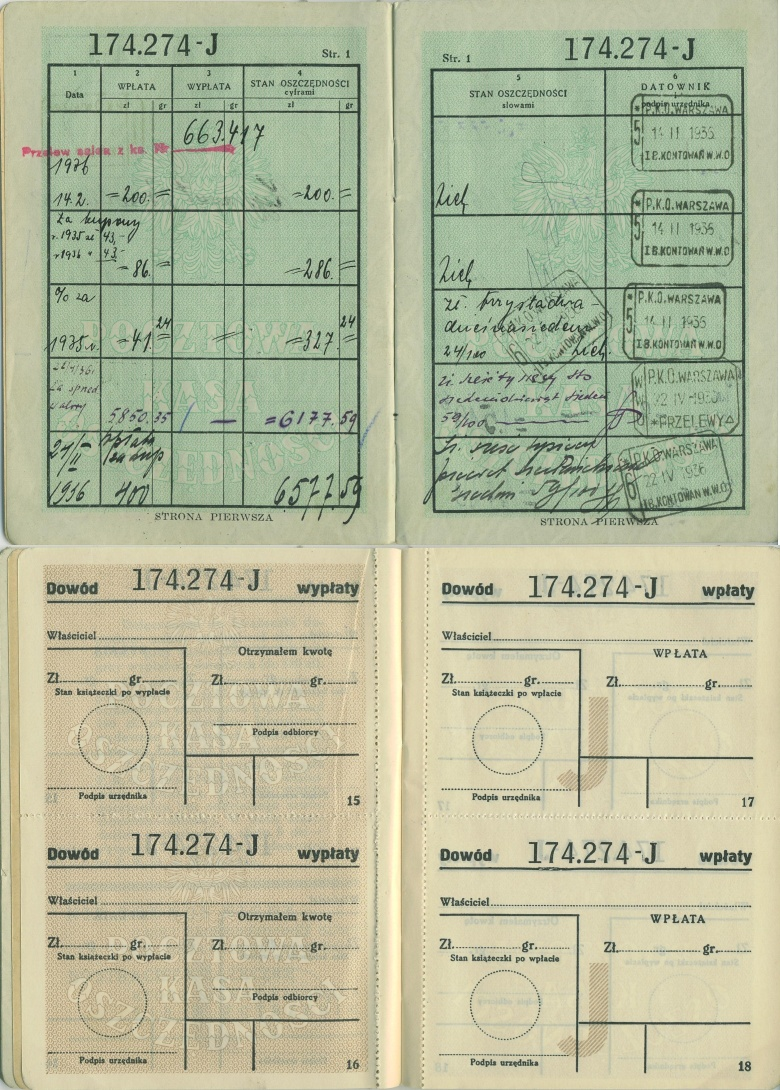 Savings booklet of Pocztowa Kasa Oszczędności (PKO) - Post Savings Bank in Poland, 1936 (inscriptions and coupons)